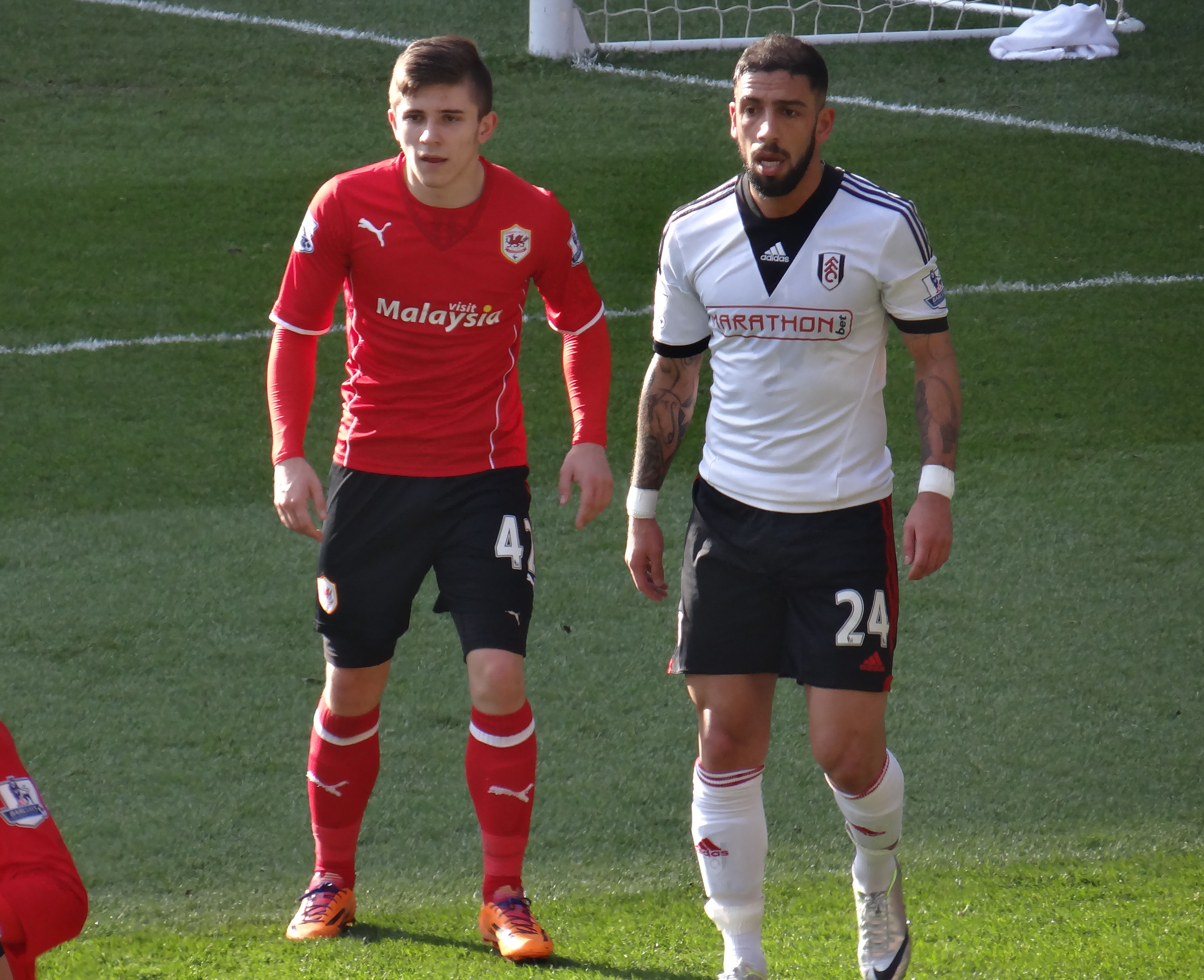 08/03/14 Cardiff City v Fulham, Premier League, Cardiff City Stadium, Cardiff, Wales